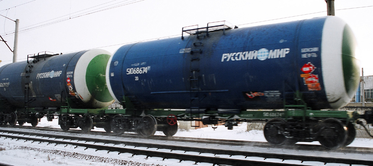 Tank cars for the transportation of petroleum products on Russian railways